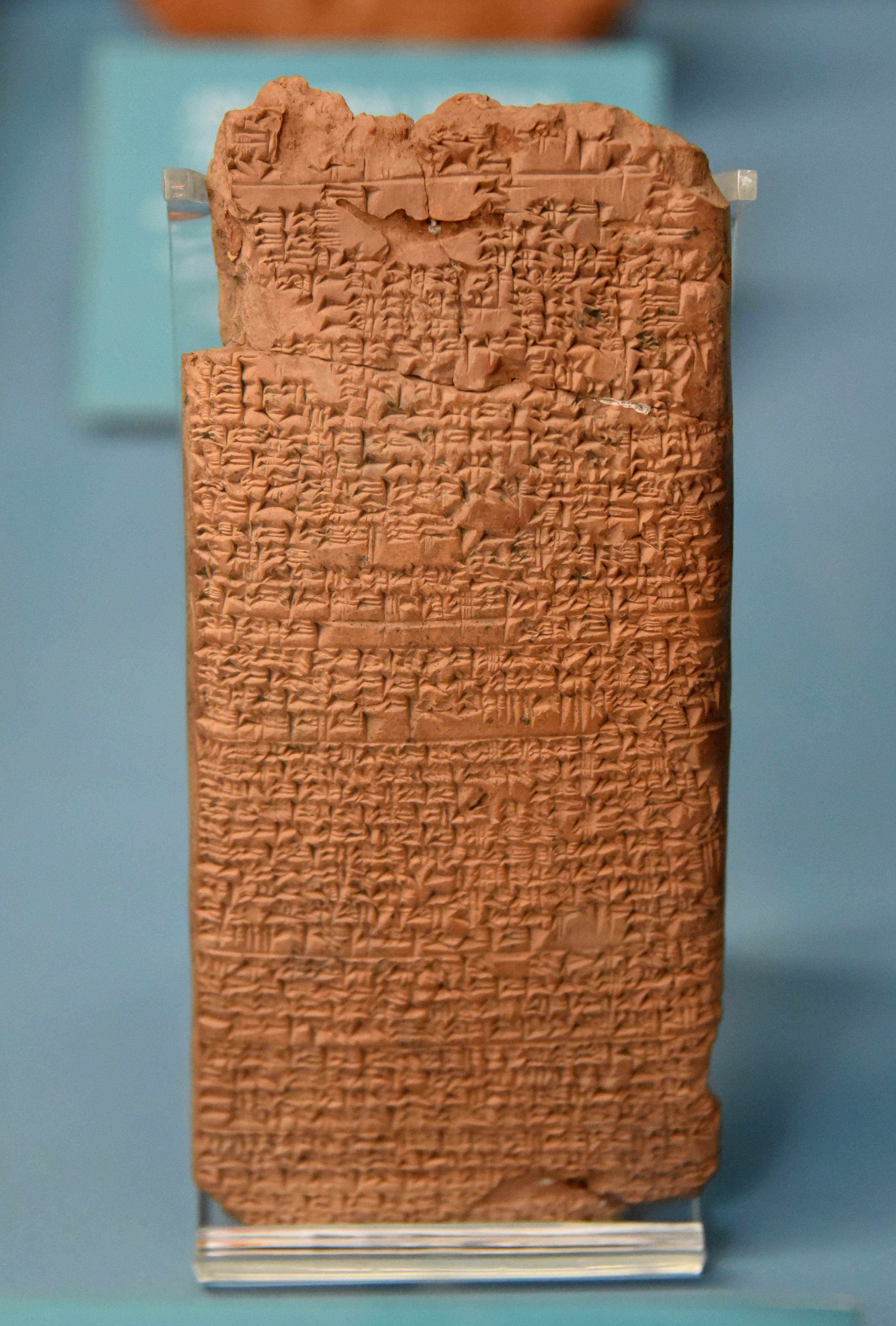 This tablet contains medical prescriptions of medicine and incantation against poisoning. The obverse gives 8 different prescriptions while the reverse recalls the cure made by the incantation. Sample: Mustard, Pistacia, nuts, sweet mixed drink, meal of roast grain, thyme, bariratu-plant into wine in a small cup, you shall pour and smear on the skin, he will live. Terracotta tablet, from Nippur, Iraq, 18th century BCE. Ancient Orient Museum, Istanbul.